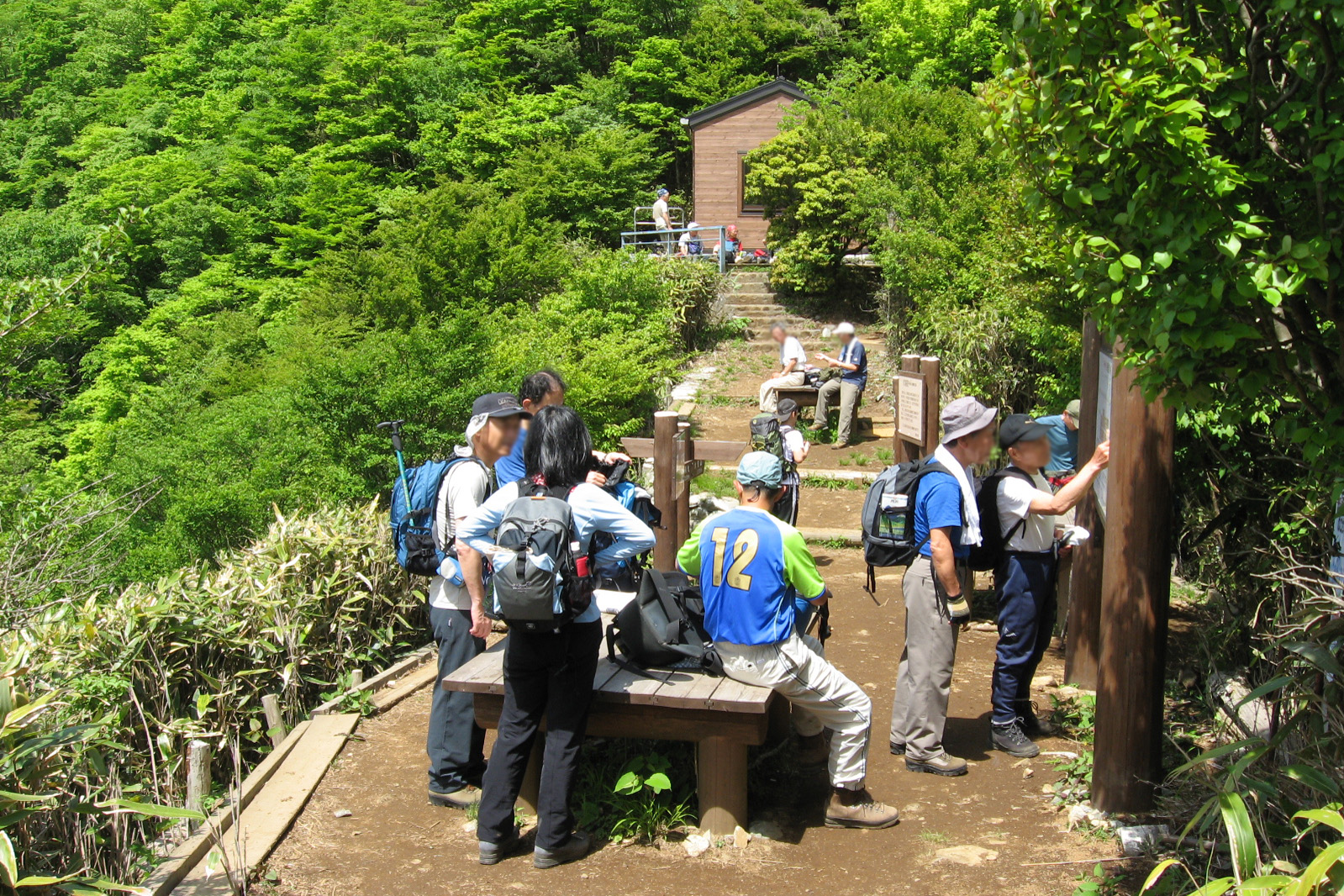 Inukoeji hinangoya ("Inukoeji shelter hut") in the Tanzawa Mountains, Japan